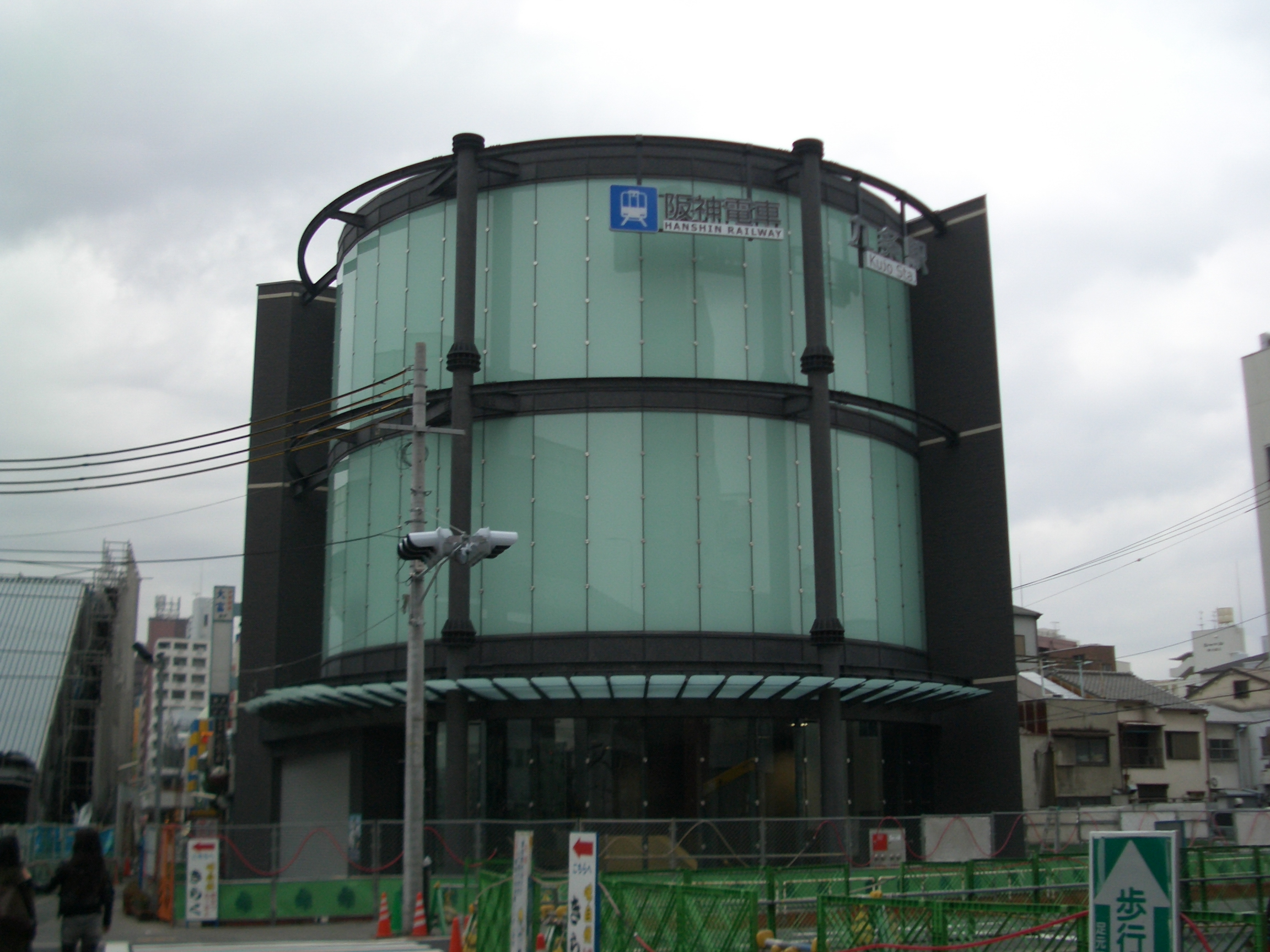 Hanshin Railway Hanshinnambaline kujyo station west gate